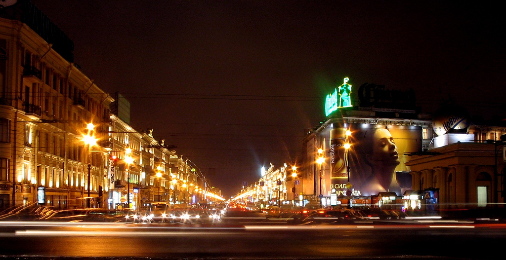 Nevsky Prospect in St. Petersburg.